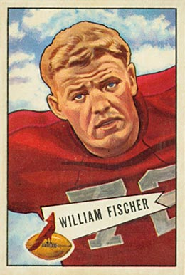 American football player Bill Fischer (American football) on a 1952 Bowman Large card.